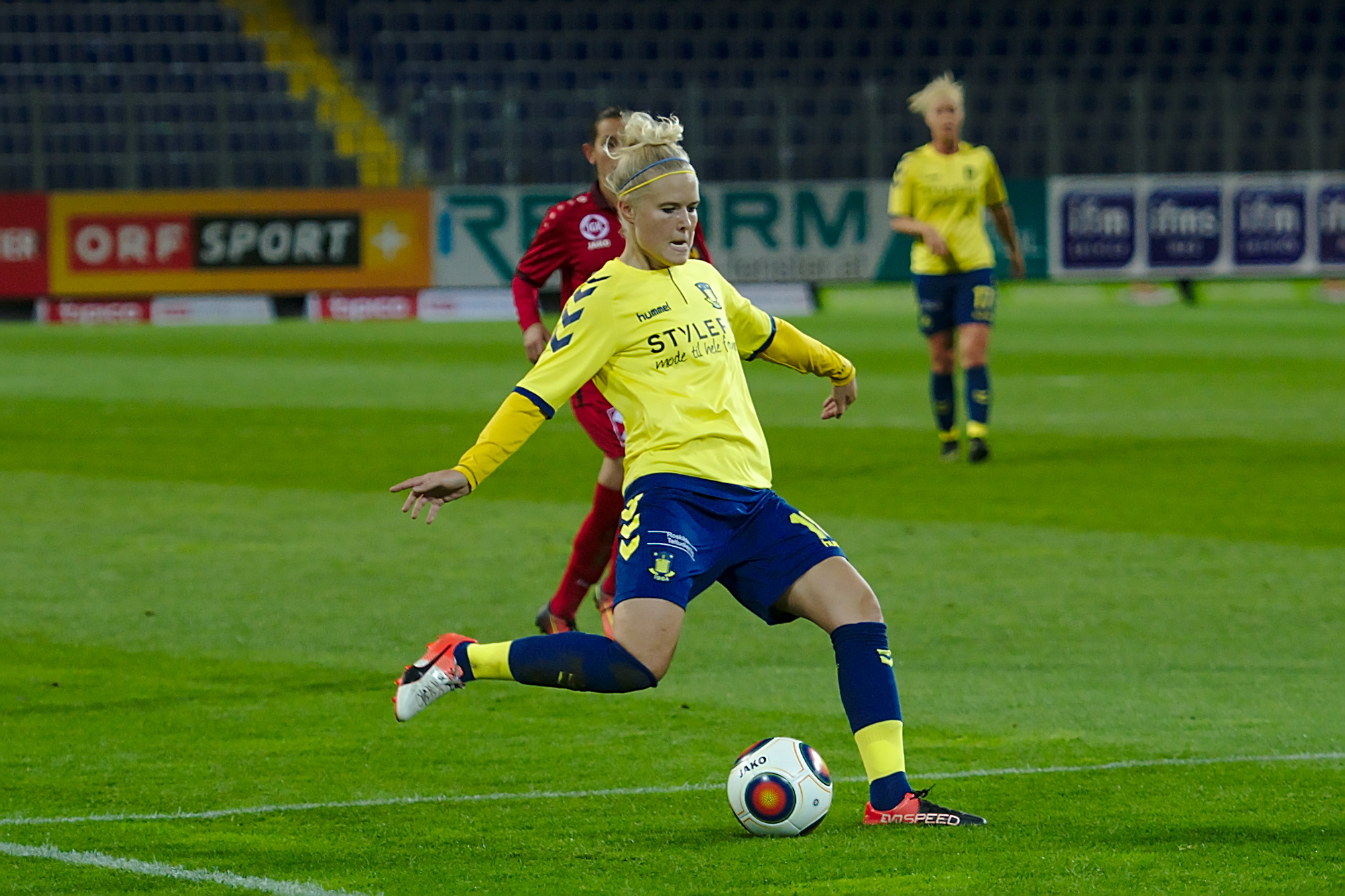 UEFA Women's Champions League Round of 32, SKN St. Pölten vs Brøndby IF am 5.10.2016. Bild zeigt Louise Kristiansen (Brøndby).